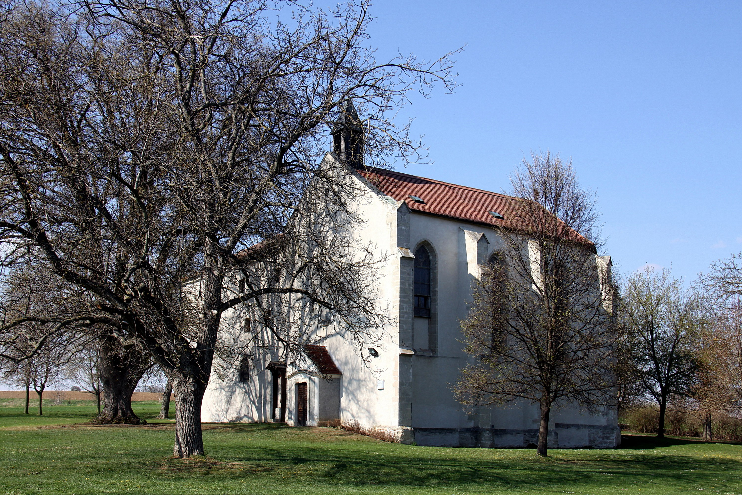 Desert monastery (former Paulinen-monastery) - Baumgarten Object location47° 44′ 01.77″ N, 16° 29′ 30.13″ E This media shows the natural monument in the Burgenland with the ID MA-011.